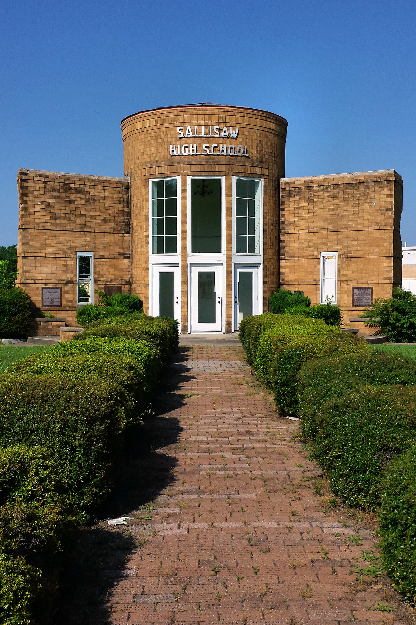 Ruins of the former Sallisaw, Oklahoma High School. The school building was completed in 1940 by Works Progress Administration workers.It served as a the high school until 1988. The old building was converted into a museum and burned down in 2004.